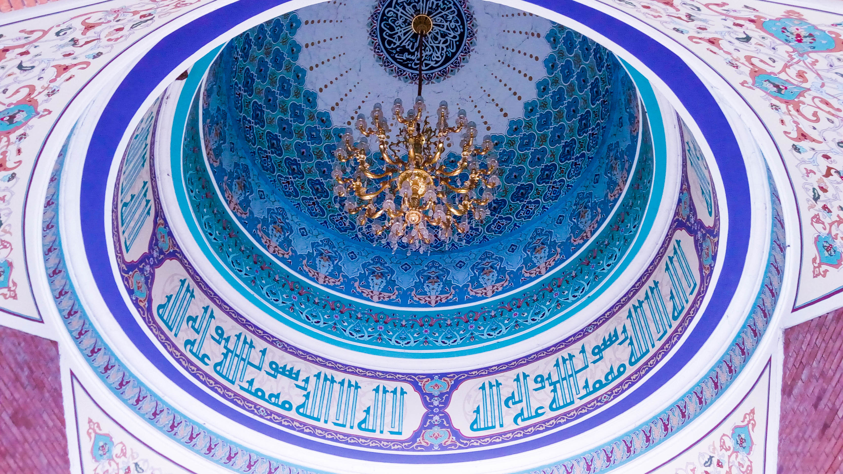 Imamzadeh Mausoleum or Goy Imam Mosque (Azerbaijani: İmamzadə türbəsi) - is located 7 km northward to Ganja. It consists of a complex including walls with entrances, small mosques and funerary monuments.